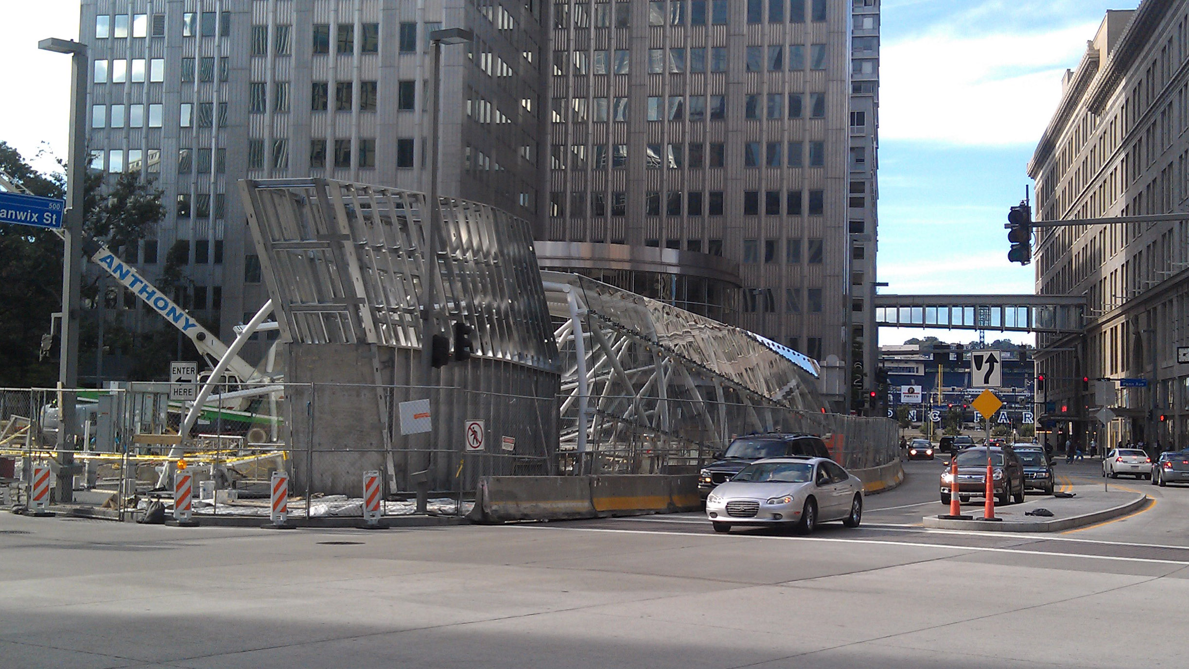 New Gateway Center subway station in Pittsburgh under construction. Taken in August of 2011.